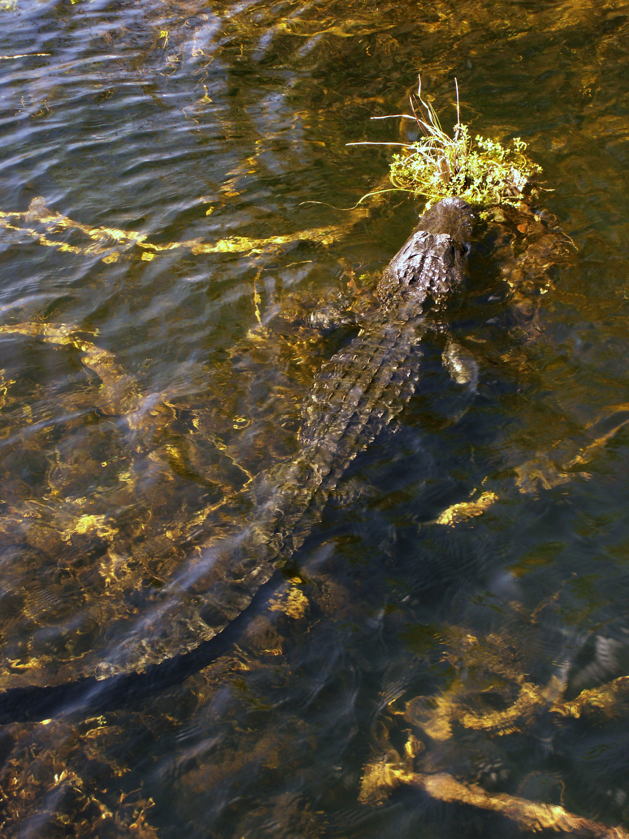 Alligator amid periphyton at Royal Palm Visitor Center Anhinga Trail in Everglades National Park